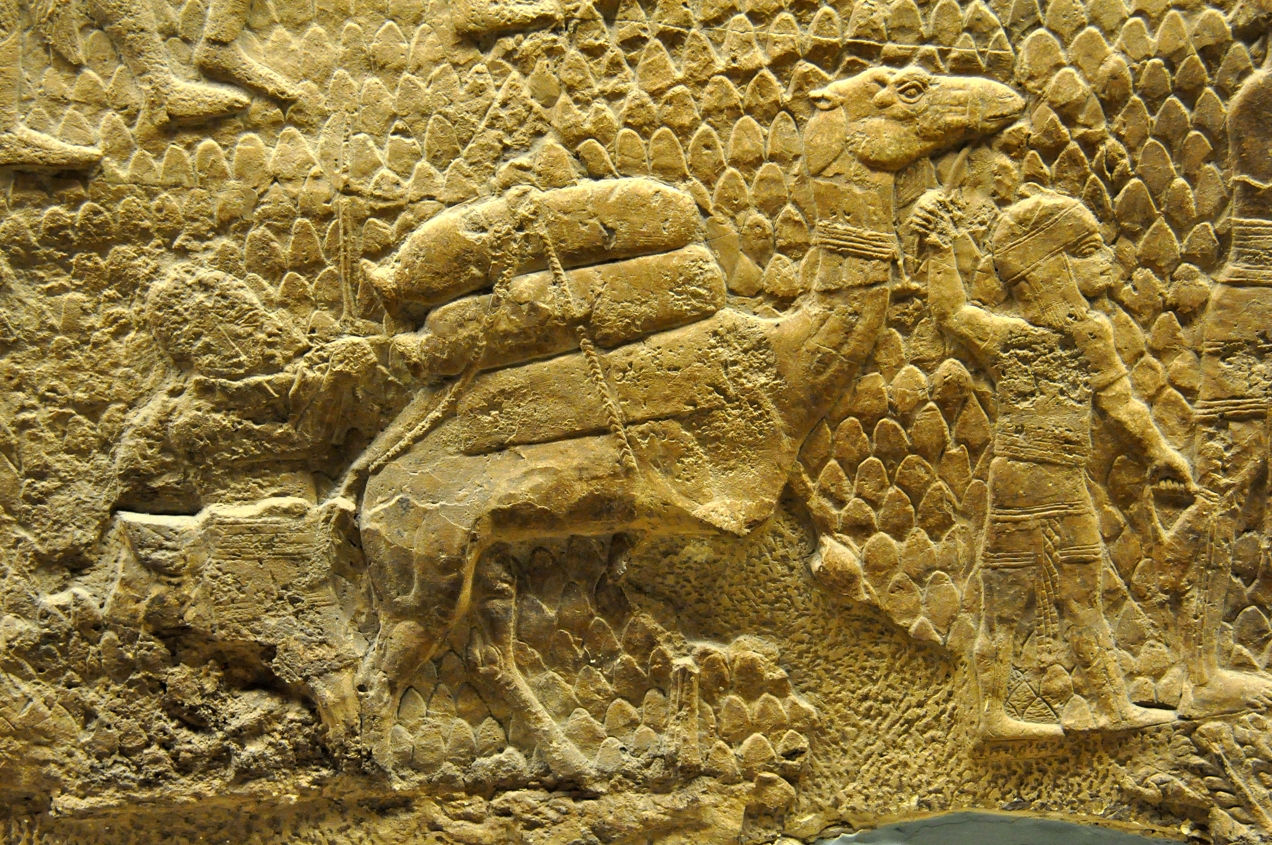 Detail of a gypsum wall relief depicting the deportation of the inhabitants of the city of Lachish after the Assyrian army captured the city. Reign of Sennacherib, 700-692 BCE, from the South-West Palace at Nineveh, Mesopotamia, modern-day Iraq, currently housed in the British Museum, London.